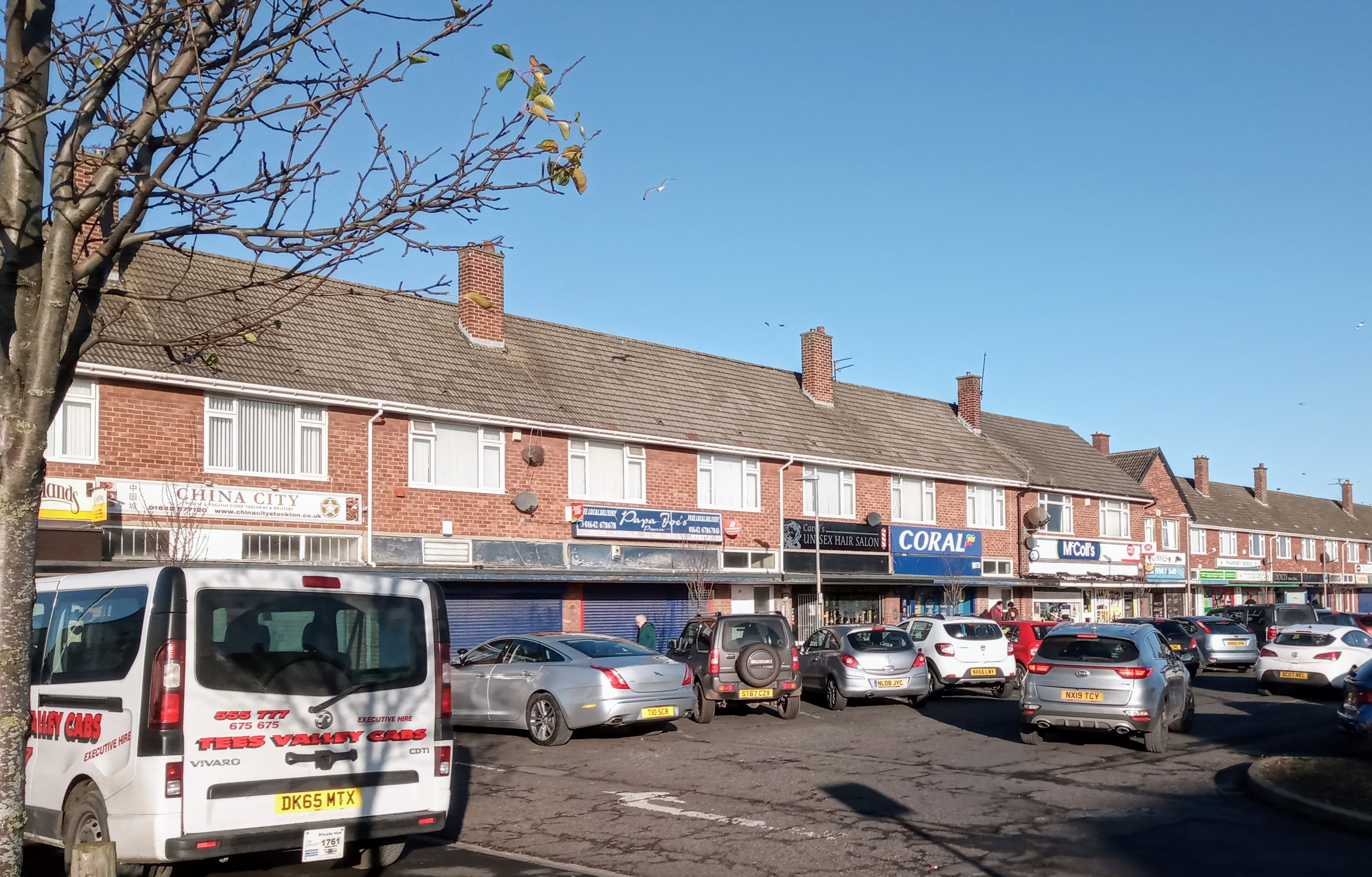 Roseworth